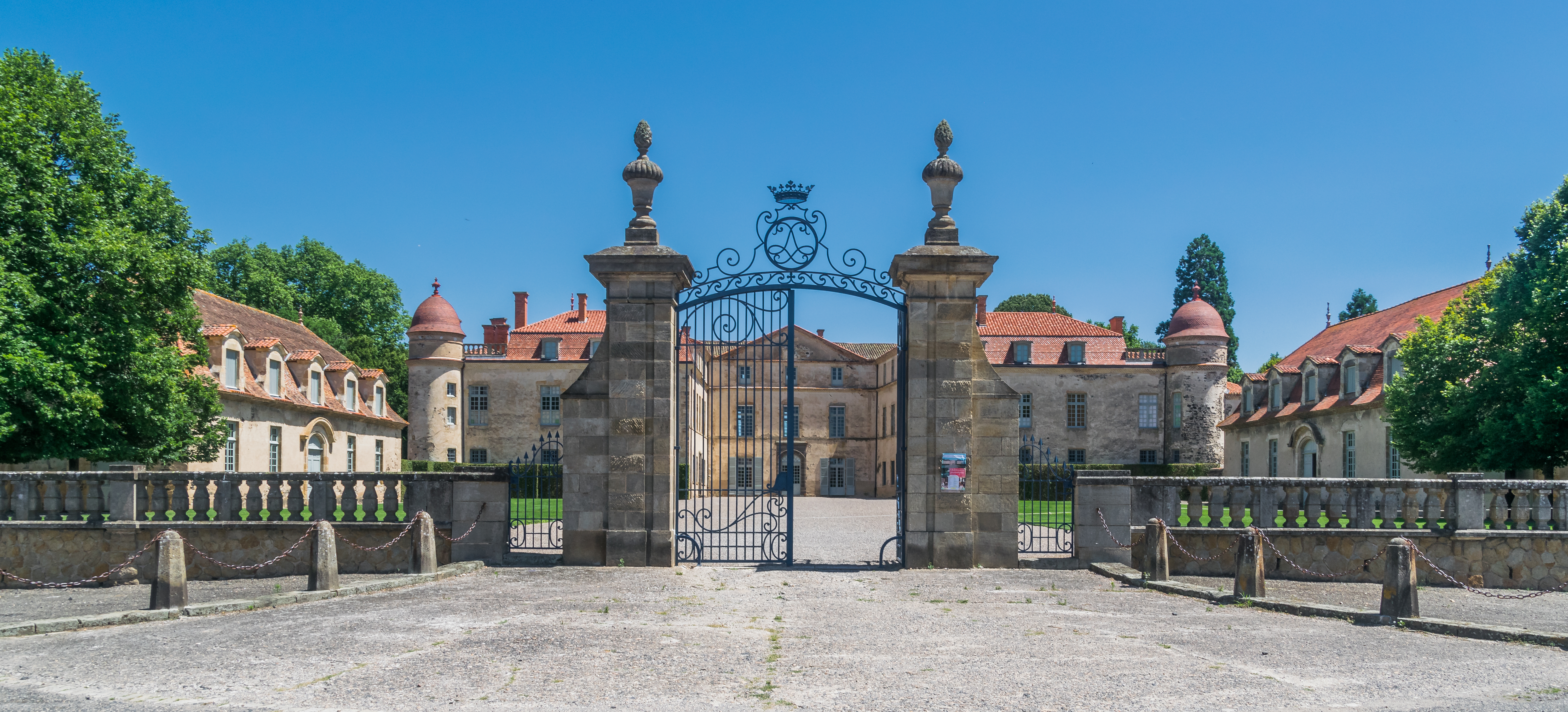 Castle of Parentignat, Puy-de-Dôme, France .